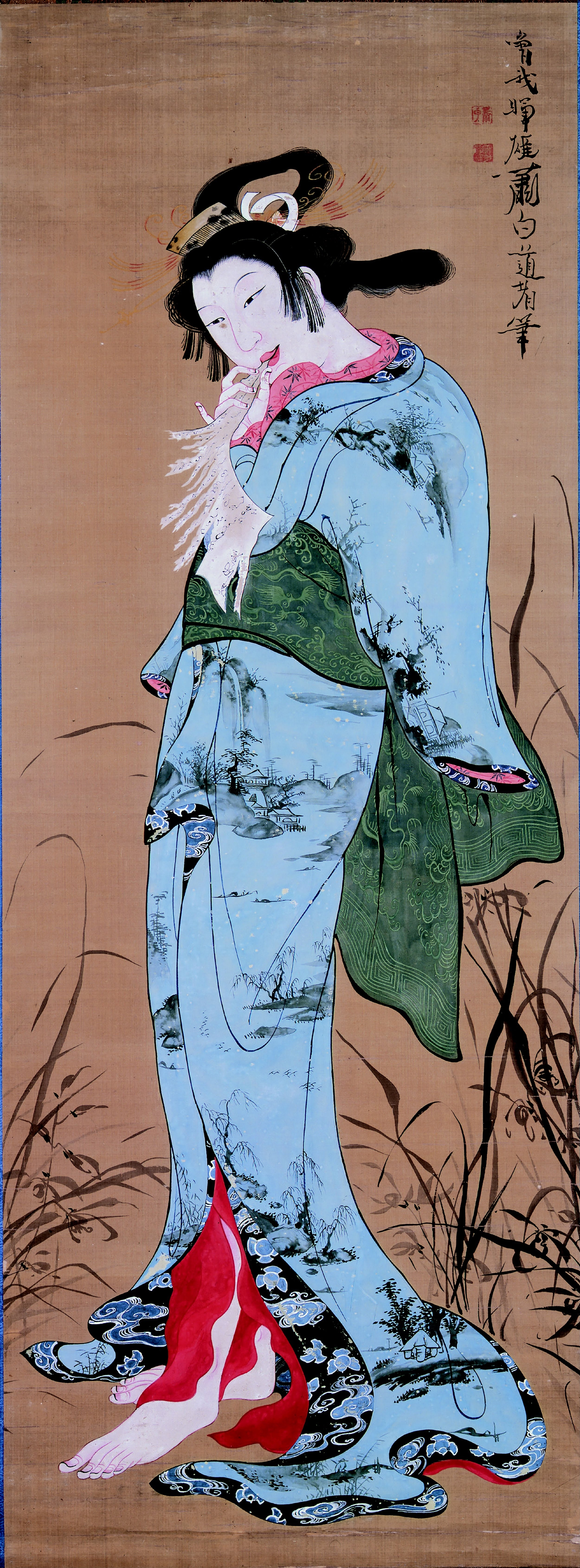 Bijin zu, by Soga Shohaku, Nara Prefectural Museum of Art, Nara, Nara, Japan. Watercolor on silk.